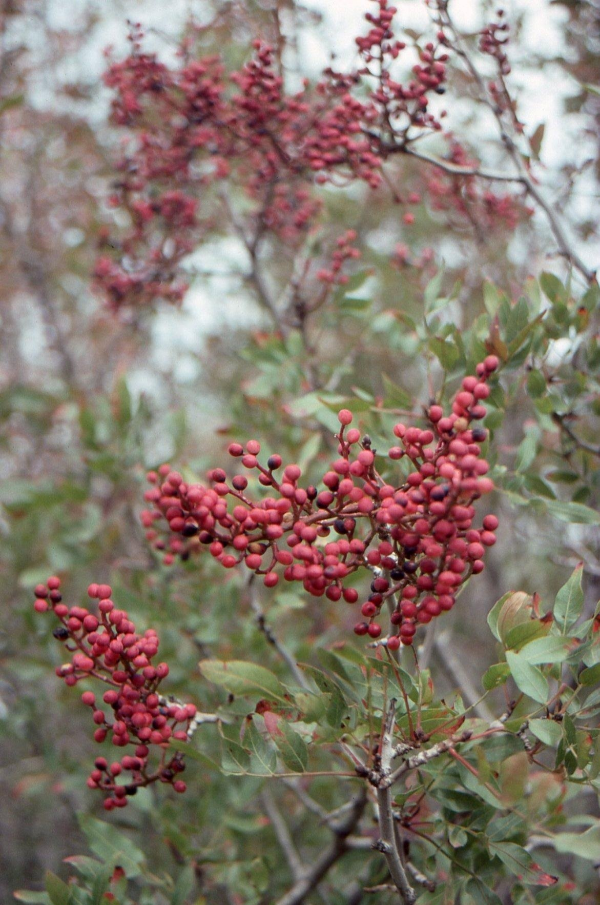 From a visit to Yenifoça in the last week of September 1998.